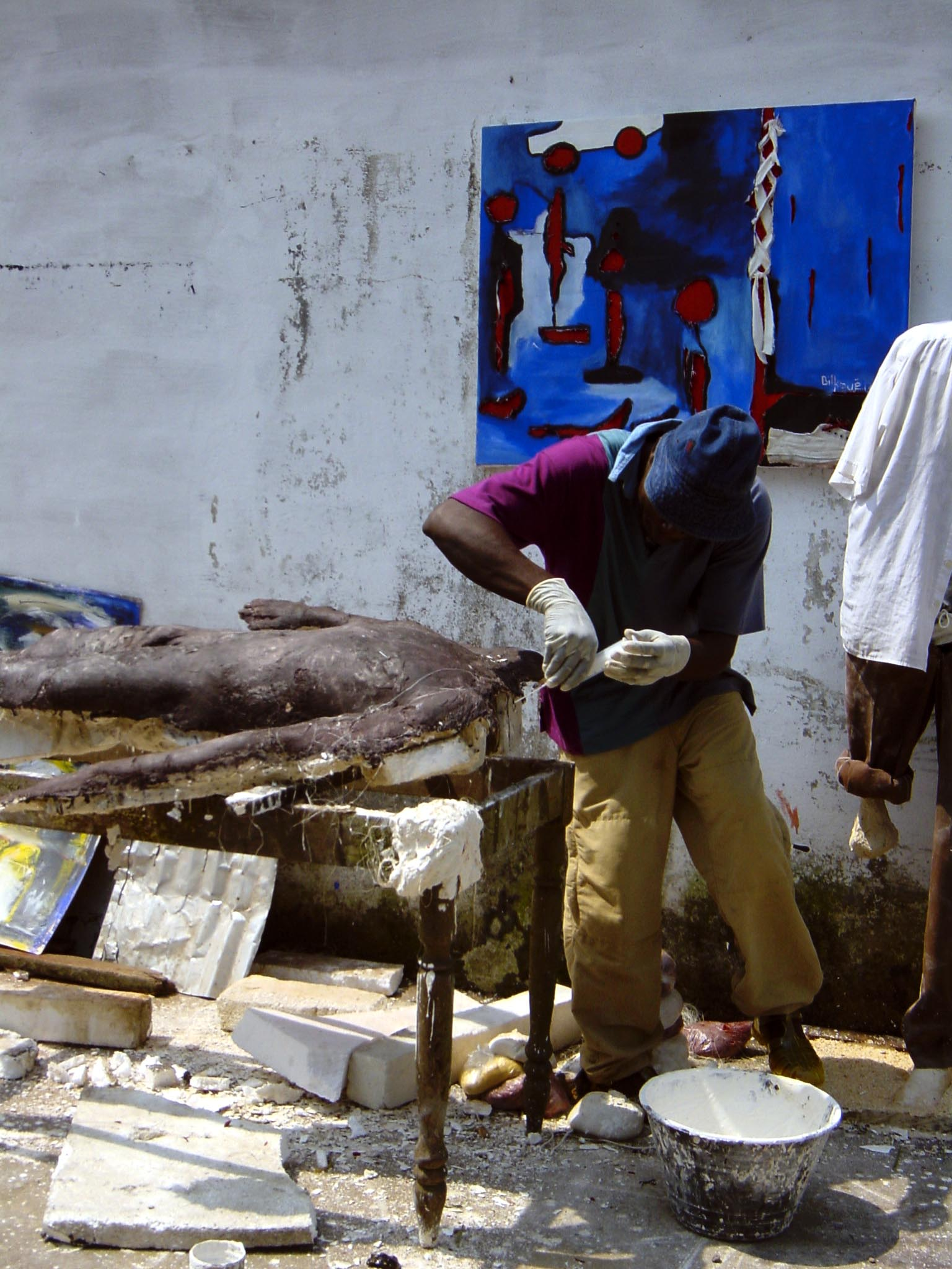 Ateliers urbain, Bessengue, Douala, 2001. A workshop organised by doual'art.